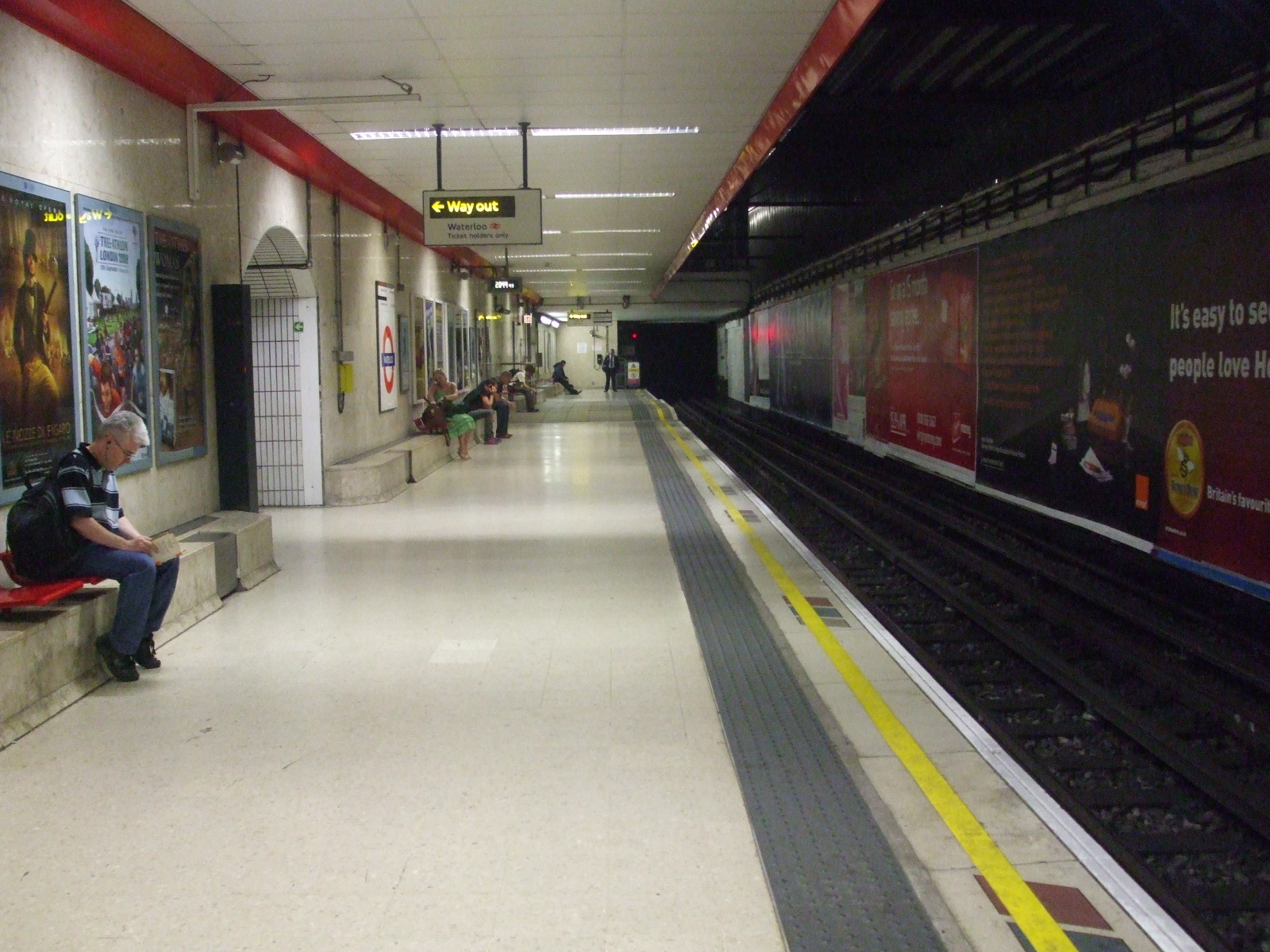 Waterloo tube station Waterloo & City line platform (for Bank trains) looking towards Bank